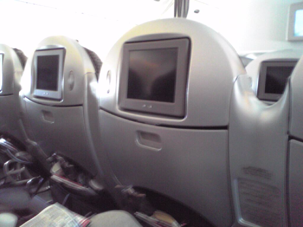 Japan Airlines, Premium Economy Class.